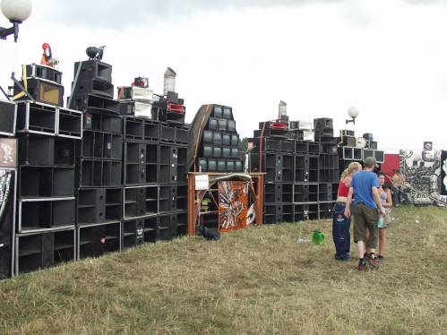 algorythm duracell enzo pk xinix zbomb sound6tems at Czechtek 2004 This image was taken from a gallery on the northtek site copyright statement: anti-copyright © every text, every picture, every sound that pleases you is yours! wherever you find it take it as yours without asking permission and do what you want with it